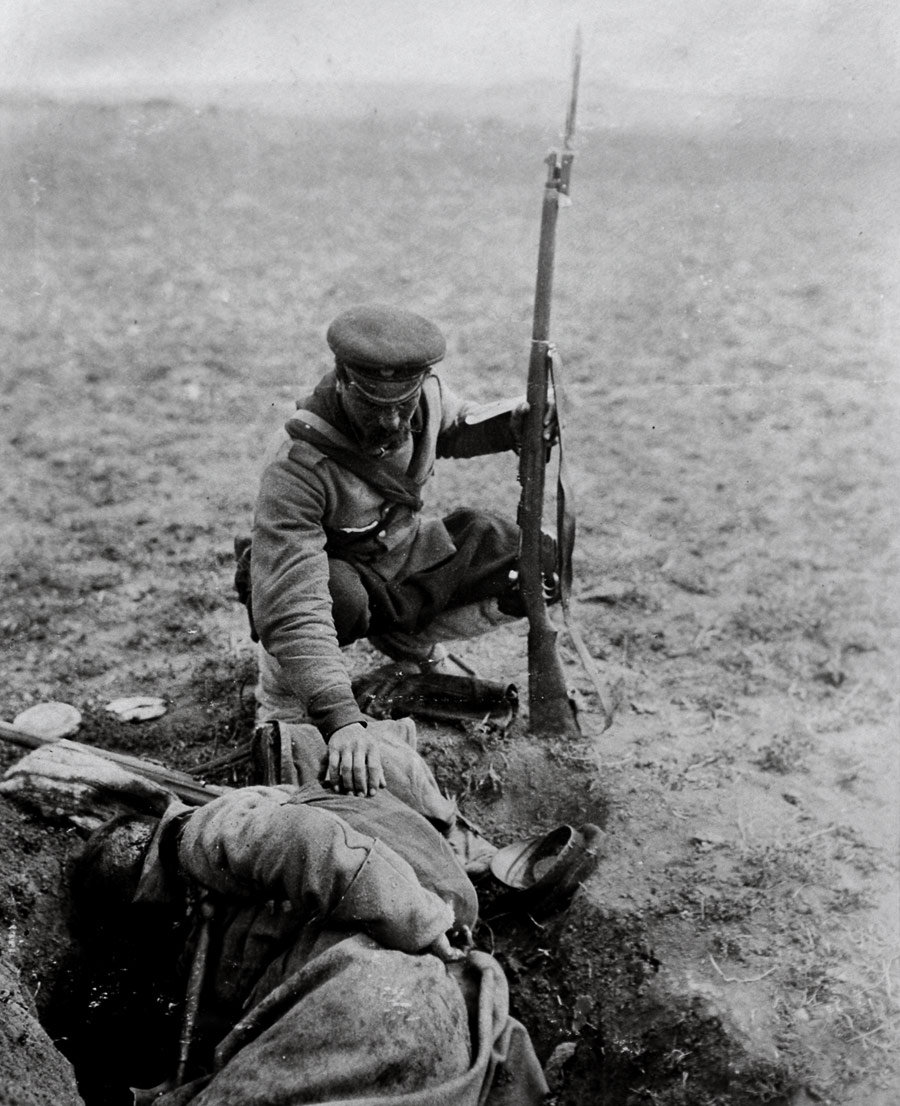 A Bulgarian soldier and a fallen comrade, 1912